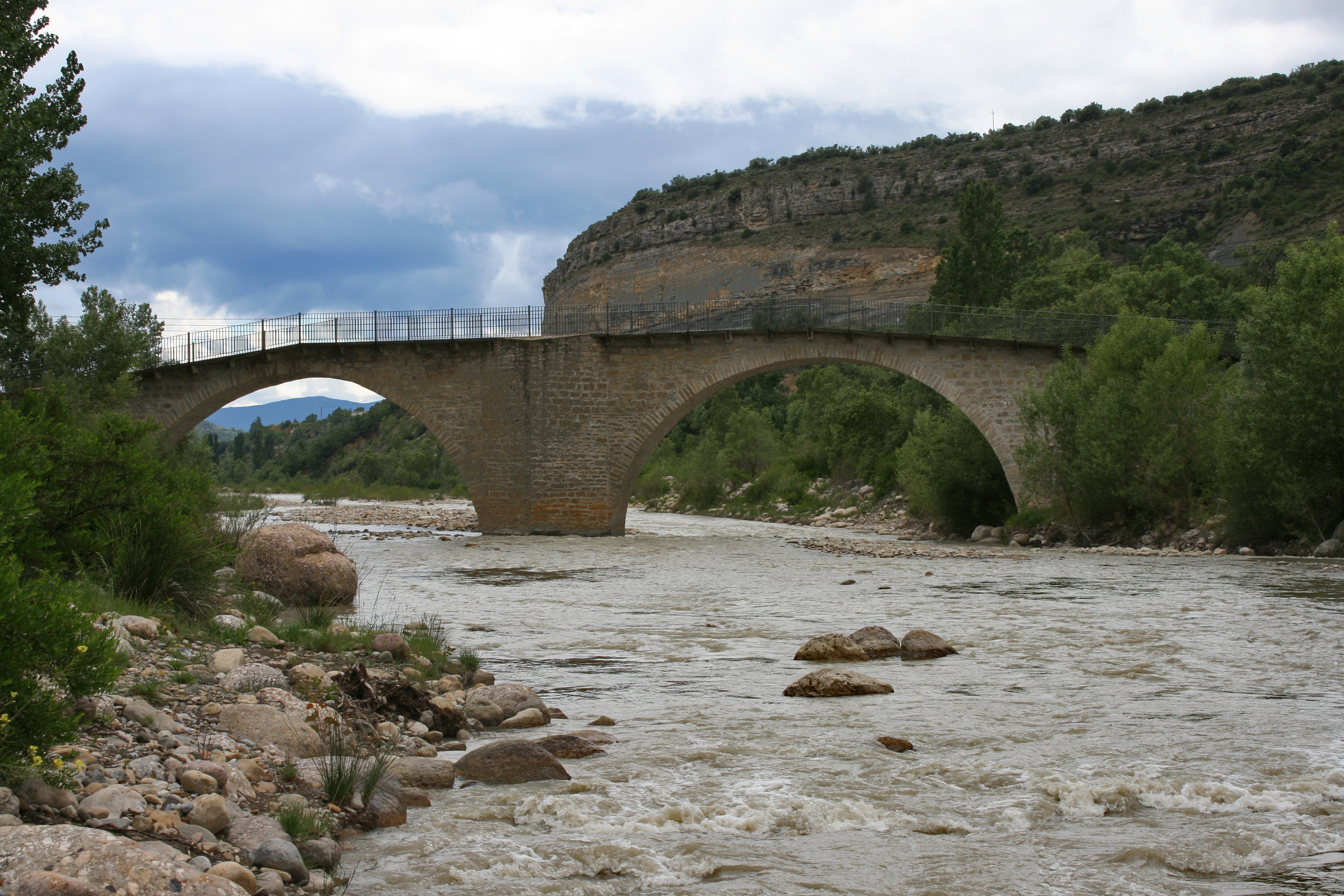 The River Isabena near to La Puebla de Roda (Huesca - Aragon - Spain)